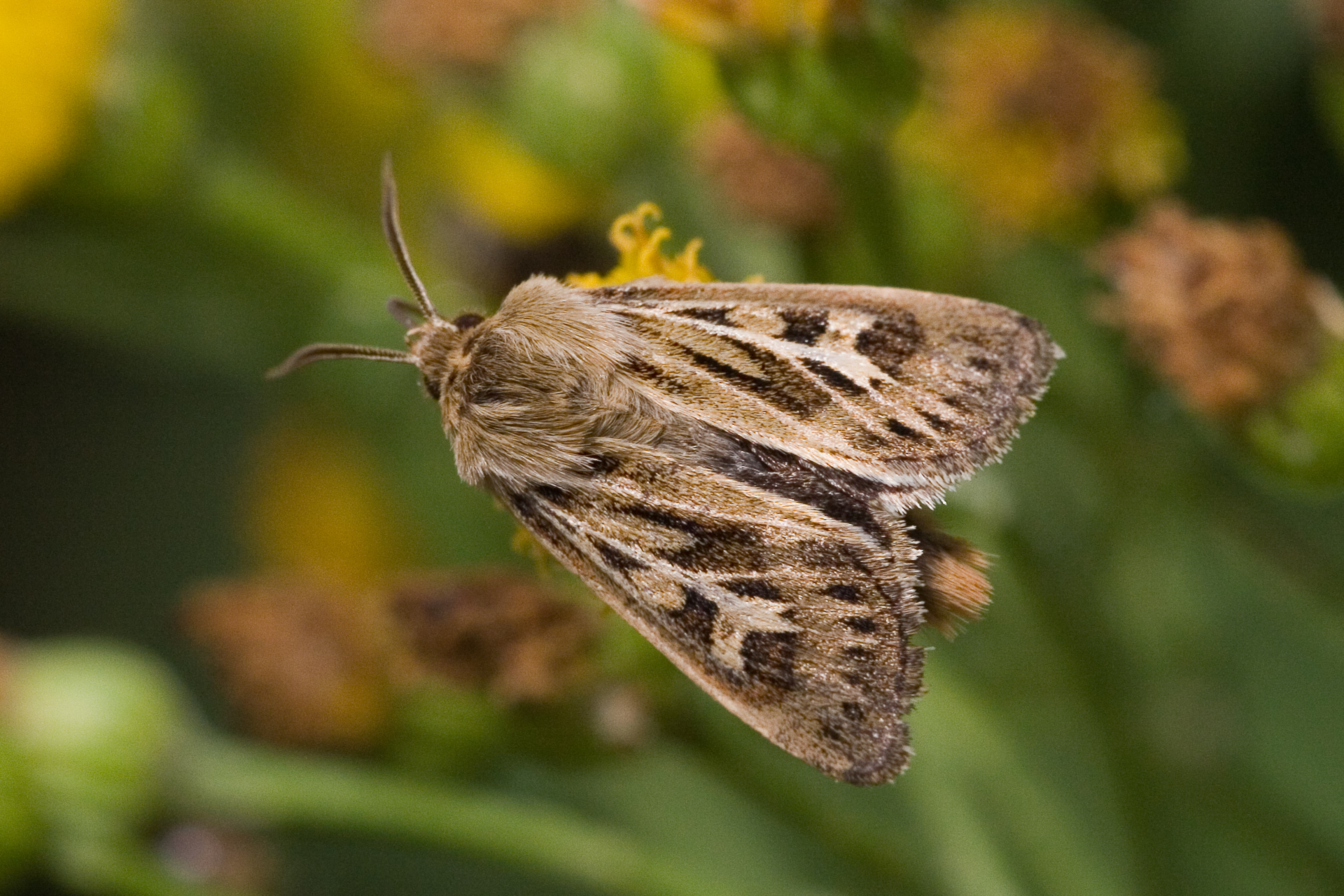 Cerapteryx graminis